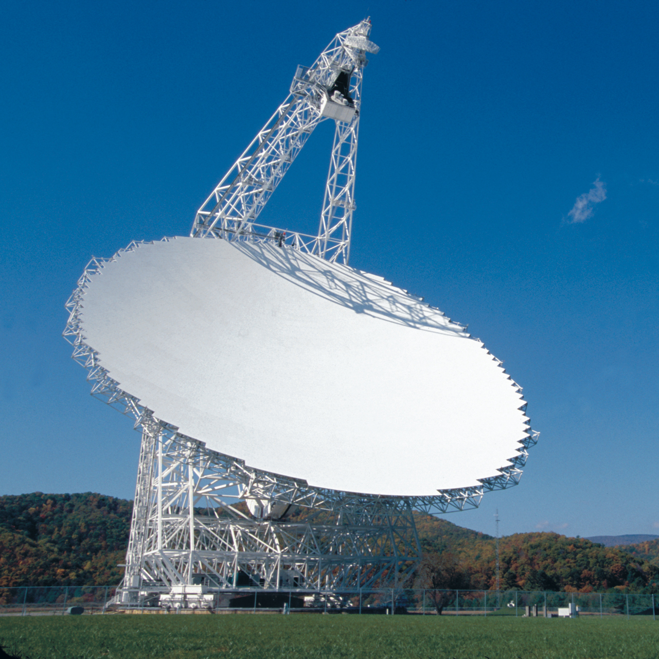 The Green Bank Telescope is the world’s largest, fully-steerable telescope. The GBT’s dish is 100-meters by 110-meters in size, covering 2.3 acres of space.